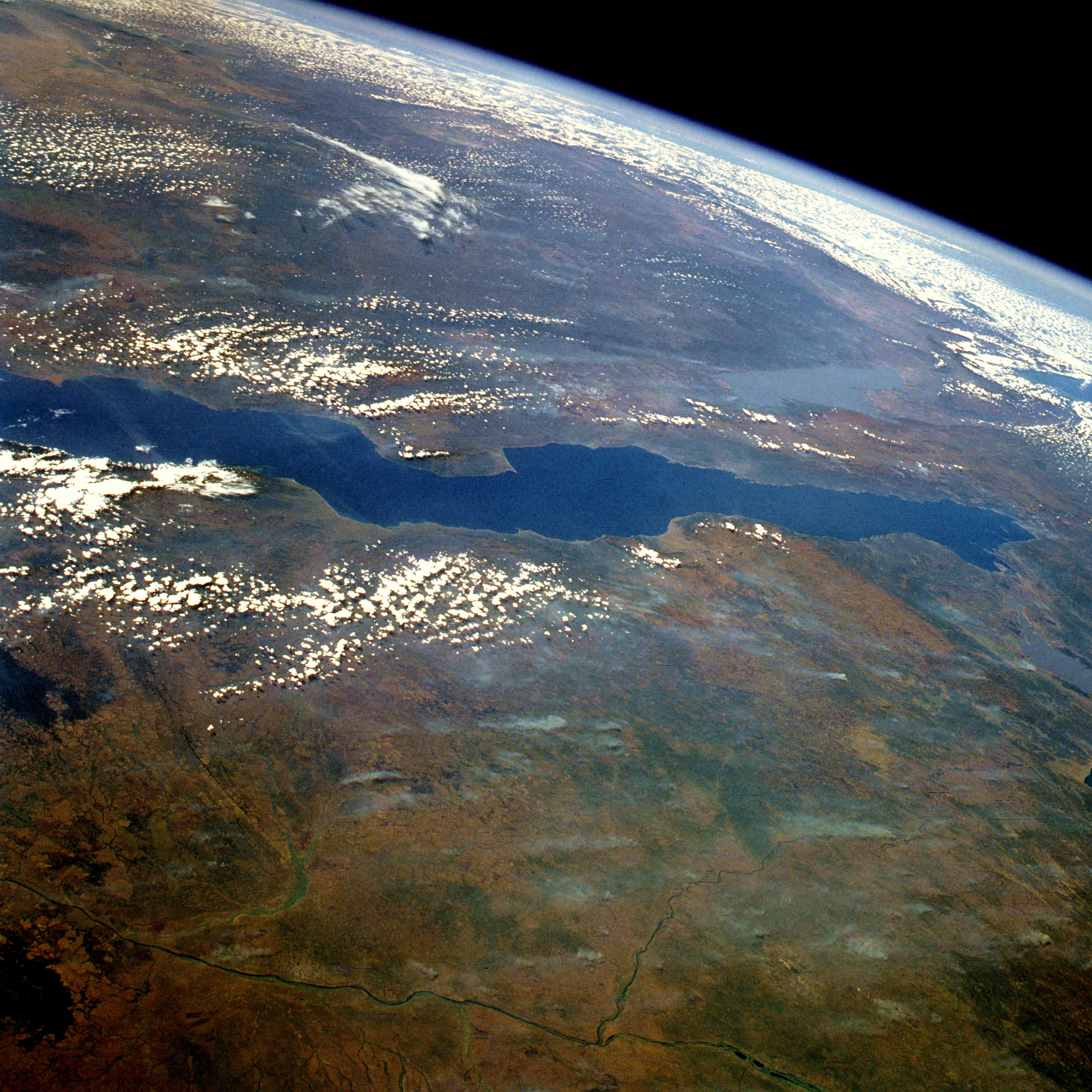 STS51G-034-0012 Lake Tanganyika, Tanzania, Zaire, and Zambia June 1985 This east-looking, high-oblique photograph features Lake Tanganyika—the second deepest freshwater lake in the world with a maximum depth of 4710 feet (1436 meters) and the longest lake in the world, stretching 410 miles (660 kilometers) north to south. Its width varies between 10 and 45 miles (16 and 72 kilometers). The lake, bordered on either side by steep slopes, fills a long narrow trough in the western arm of Africa’s Great Rift Valley and supports a thriving fishing industry. The lake basin, a landform in which a block of the Earth’s crust dropped down between blocks that rise on either side, began to form nearly 25 million years ago as part of the Great Rift Valley. On the lake’s west shore is Tanganyika’s sole outlet, the Lukuga River, which is a tributary of the Zaire River (northwest portion of photograph). The Zaire River flows westward and empties into the Atlantic Ocean. Other features in the photograph are shallow, silt-laden Lake Rukwa to the east of the lake and the extreme northern tip of Lake Nyasa near the southeast horizon.